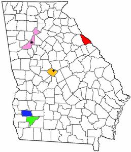 I made it. Shows Lincoln County (red), Dougherty County (blue), Baker County (red), Atlanta and Fulton County (pink), and Macon and Bibb County (orange), where Richard F. Lyon was born, worked, and died.